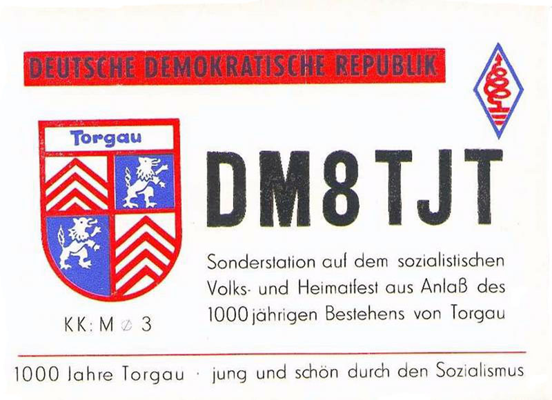 QSL Torgau 1973, Kreiskenner M03